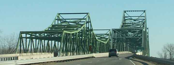 Mormon Bridge from Nebraska looking to Iowa. The original bridge is on the right.